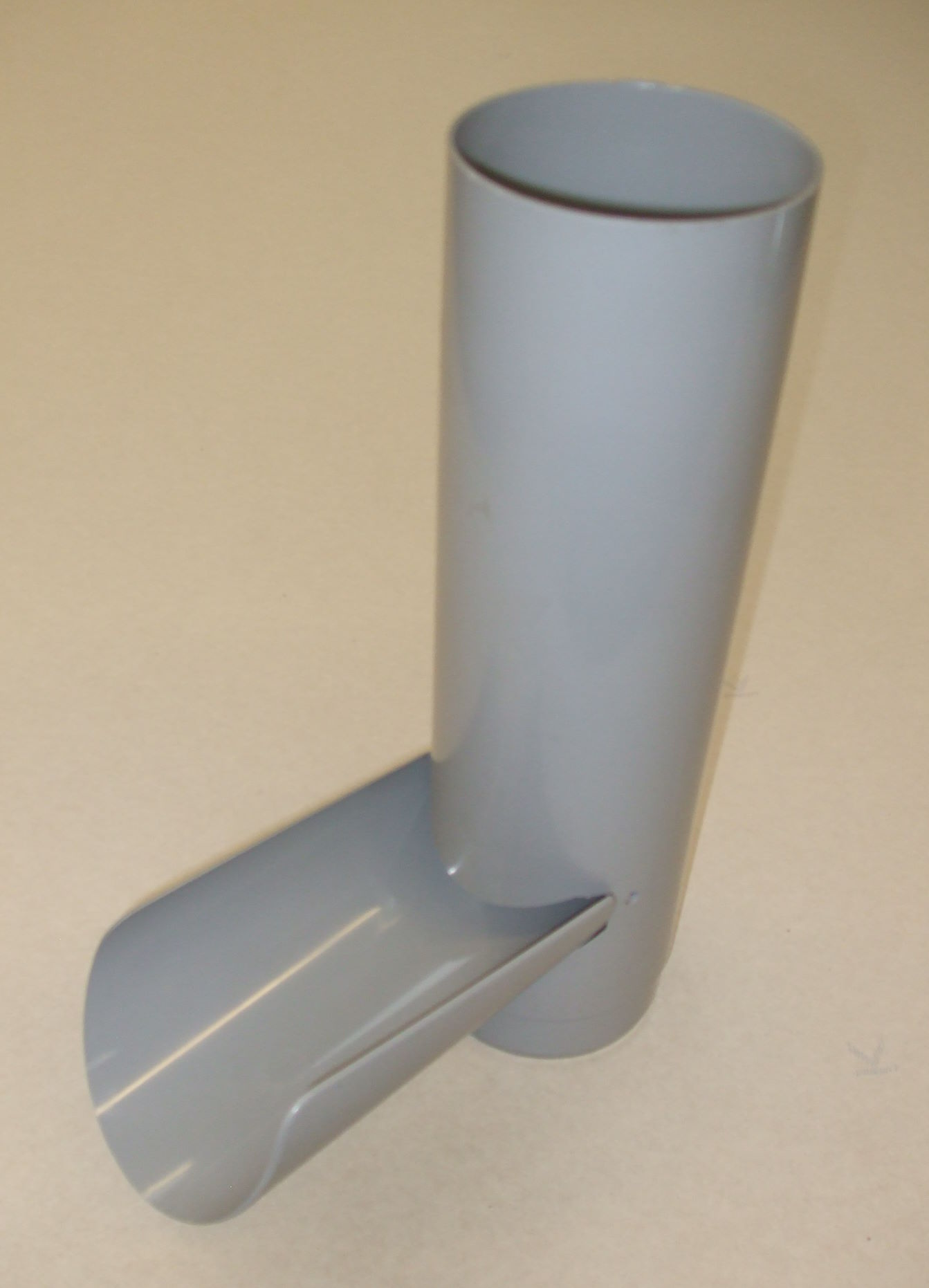 rainwater switch (?)